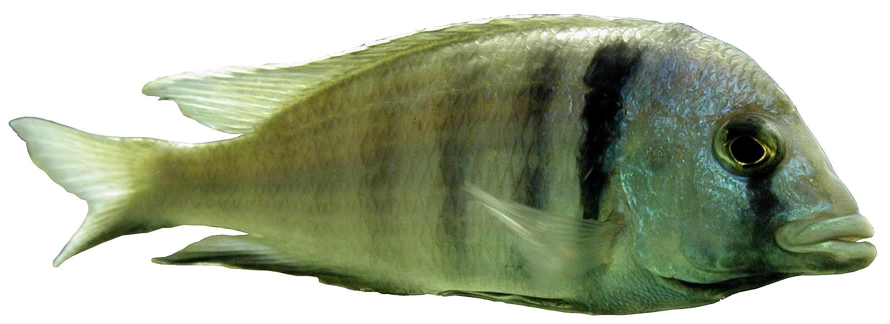 Image title: Sea fish on white background Image from Public domain images website